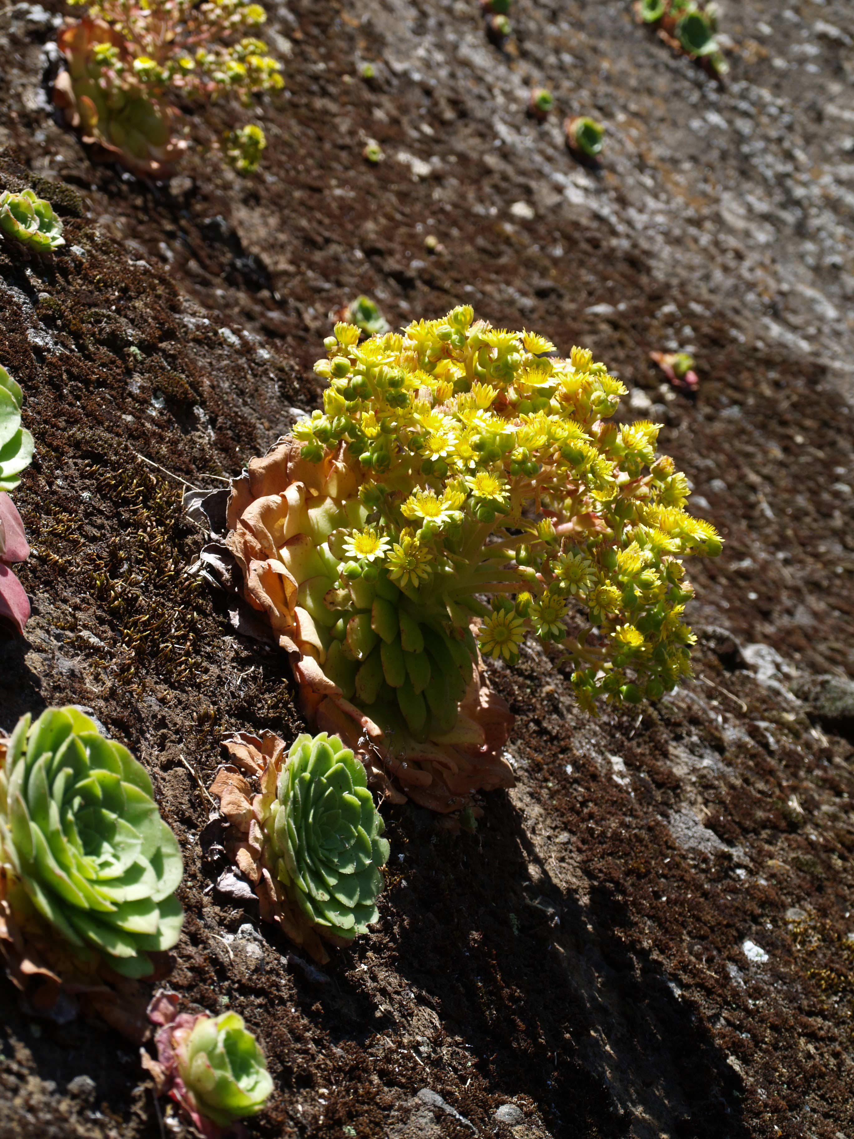 Aeonium glandulosum (Ait.) Webb et Berth. - near Pico Arieiro, Madeira, 3. 8. 2008